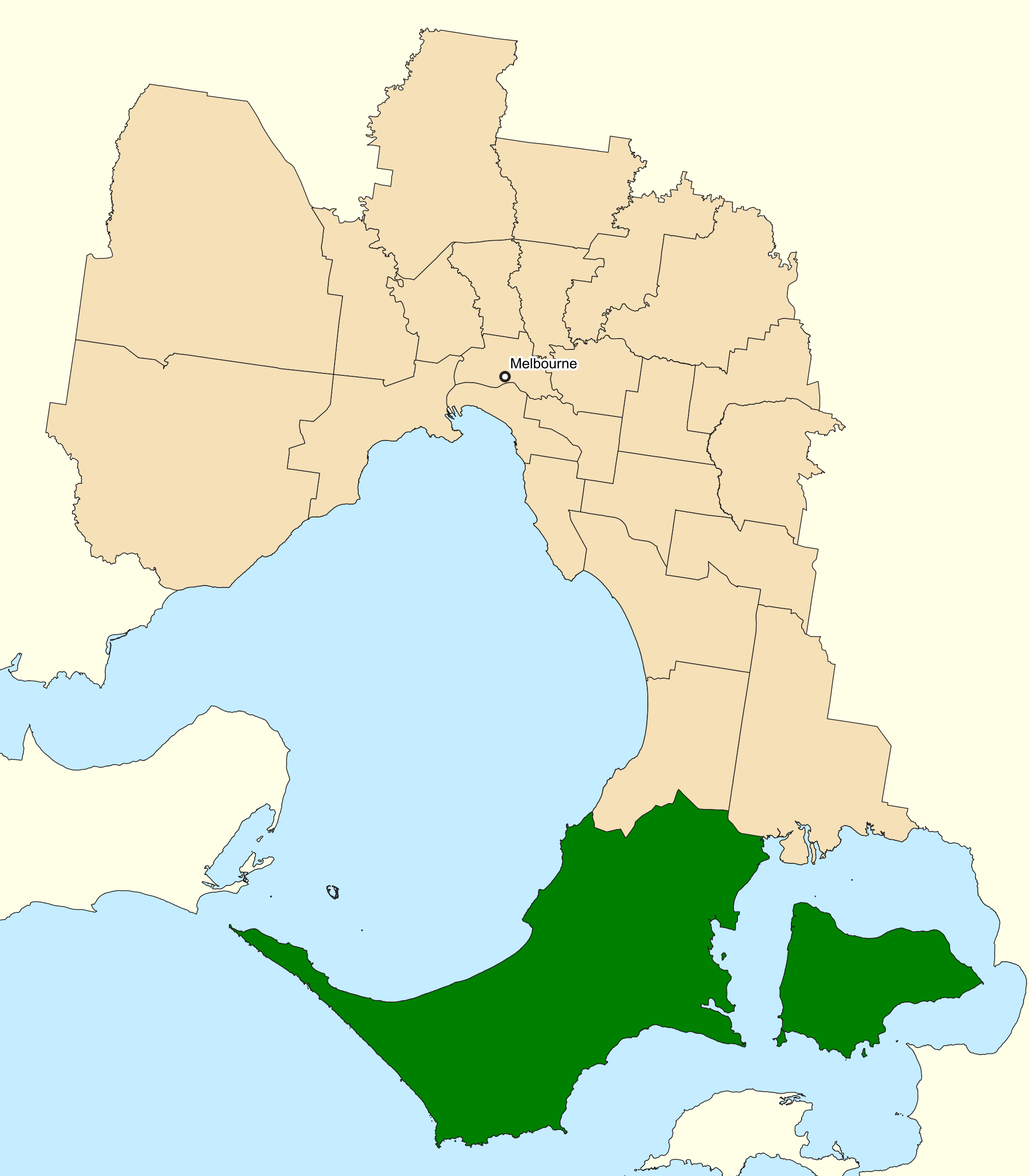 Location of the Australian federal electoral division of Flinders (dark green) in Greater Melbourne, Victoria as of the 2019 Australian federal election. Incorporates or developed using Administrative Boundaries ©PSMA Australia Limited licensed by the Commonwealth of Australia under Creative Commons Attribution 4.0 International licence (CC BY 4.0).